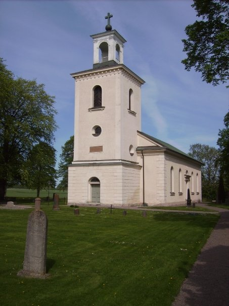 The church in Vallerstad, outside the town Skänninge, Östergötland, Sweden.